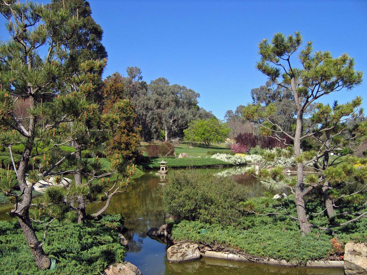 Traditional Japanese lake at the Japanese Gardens, Cowra, NSW, Australia